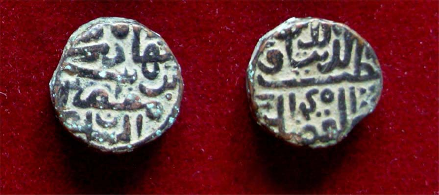 Copper coin of Bahadur weighing 9.7 Gms from my cabinet.